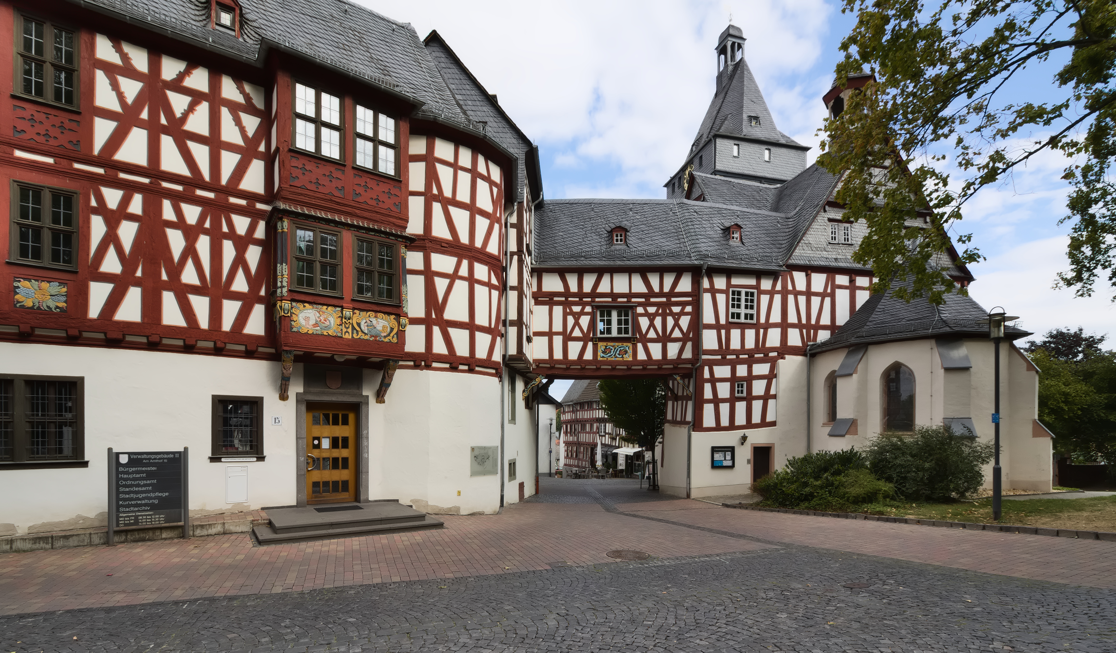 The former "Amthof" at Bad Camberg, eastern part of the Hohenfeld building. On the left side the bay with allegories of Mercury and Roma, on the right the Hohenfeld chapel. (Bad Camberg, Taunus, Germany.)